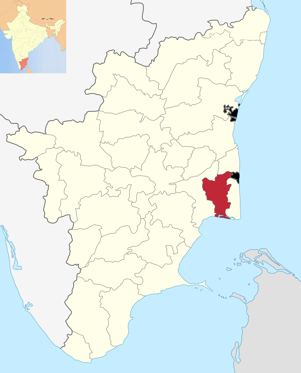 Map of Thiruvarur district, Tamil Nadu, India